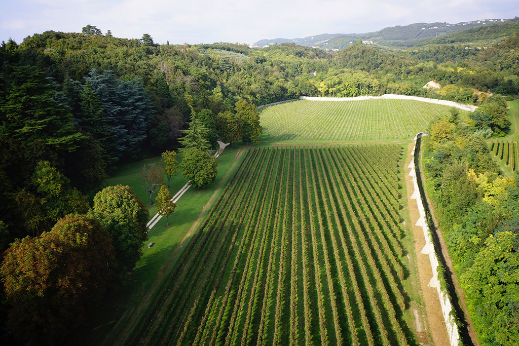 Tenuta Santa Maria di Gaetano Bertani - Amarone Classico Vineyards - Clos of Villa Mosconi Bertani